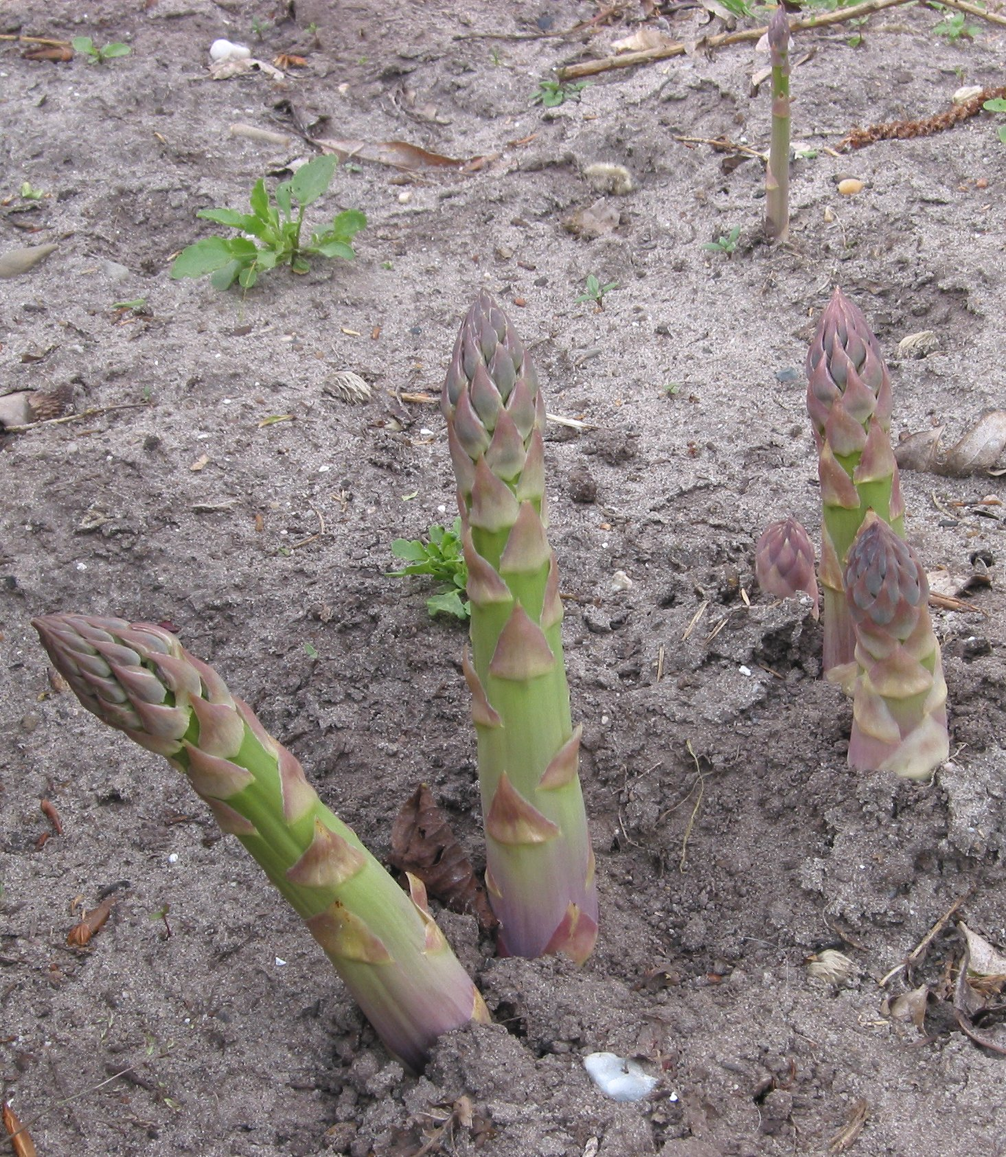 (nl: Asperges) Asparagus officinalis